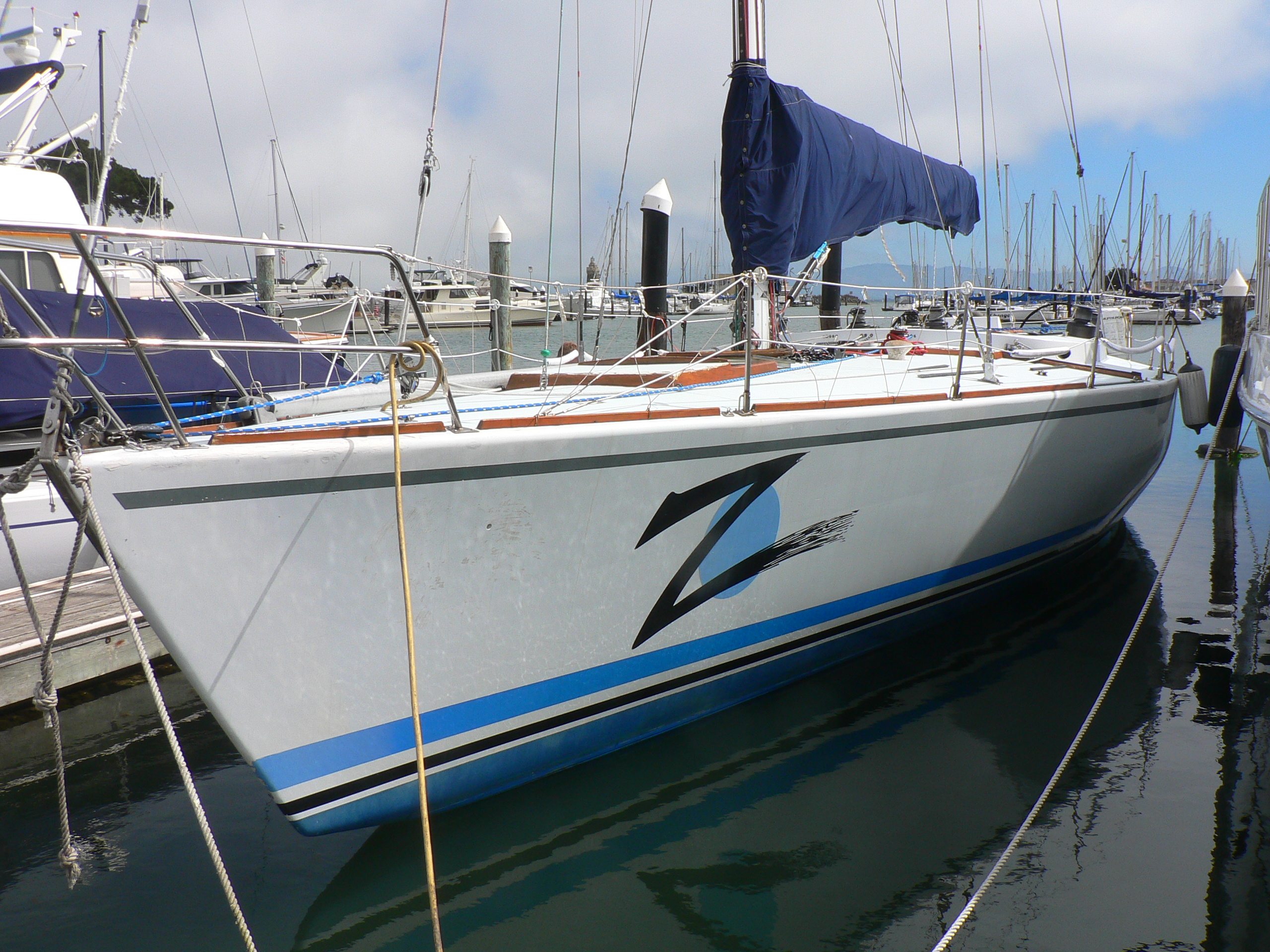 Photograph of Farr 52 racing sailboat Zamazaan at home in the San Francisco Marina, taken in 2007 by John Navas.